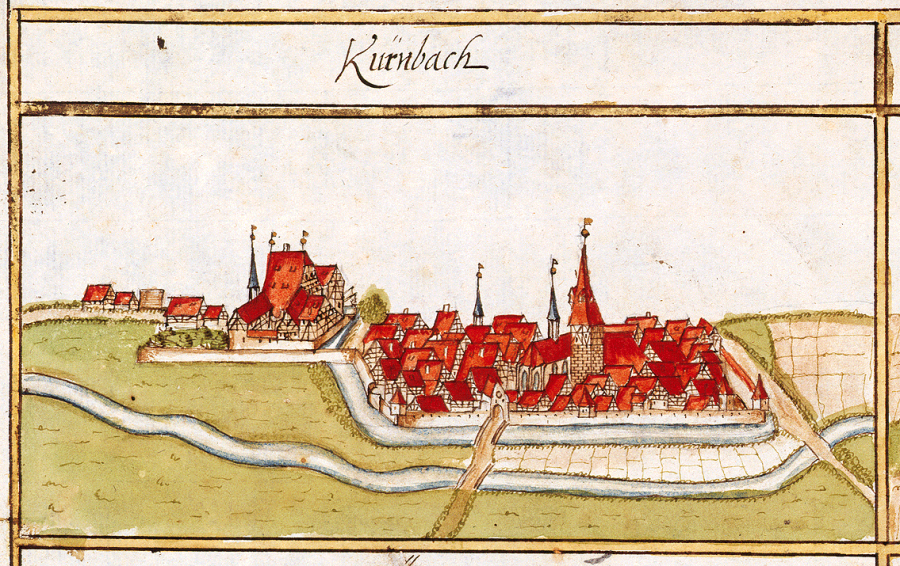 View of Kürnbach from the forest register books created by Andreas Kieser